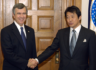 Shōichi Nakagawa, Minister of Agriculture, Forestry and Fisheries, talked with Mike Johanns, Secretary of Agriculture, at the Department of Agriculture in Washington, D.C. on January 13, 2006.